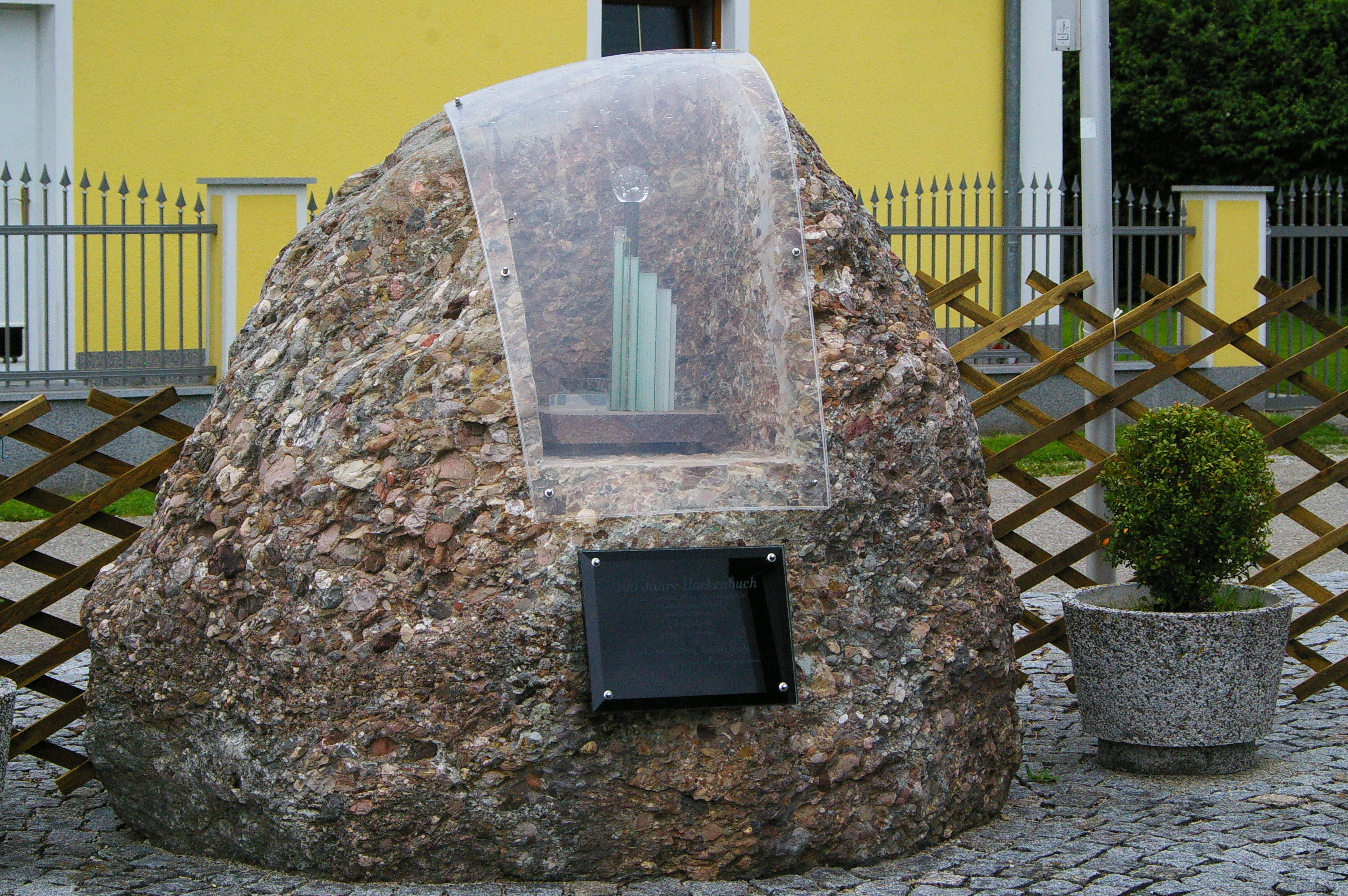 memorial 100 years Emmy-Hütte glas production in Hackenbuch